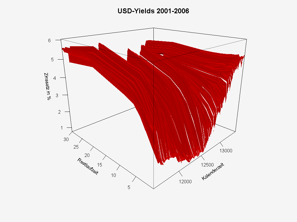 the us government term structure of interest rates from 2000 to 2006.